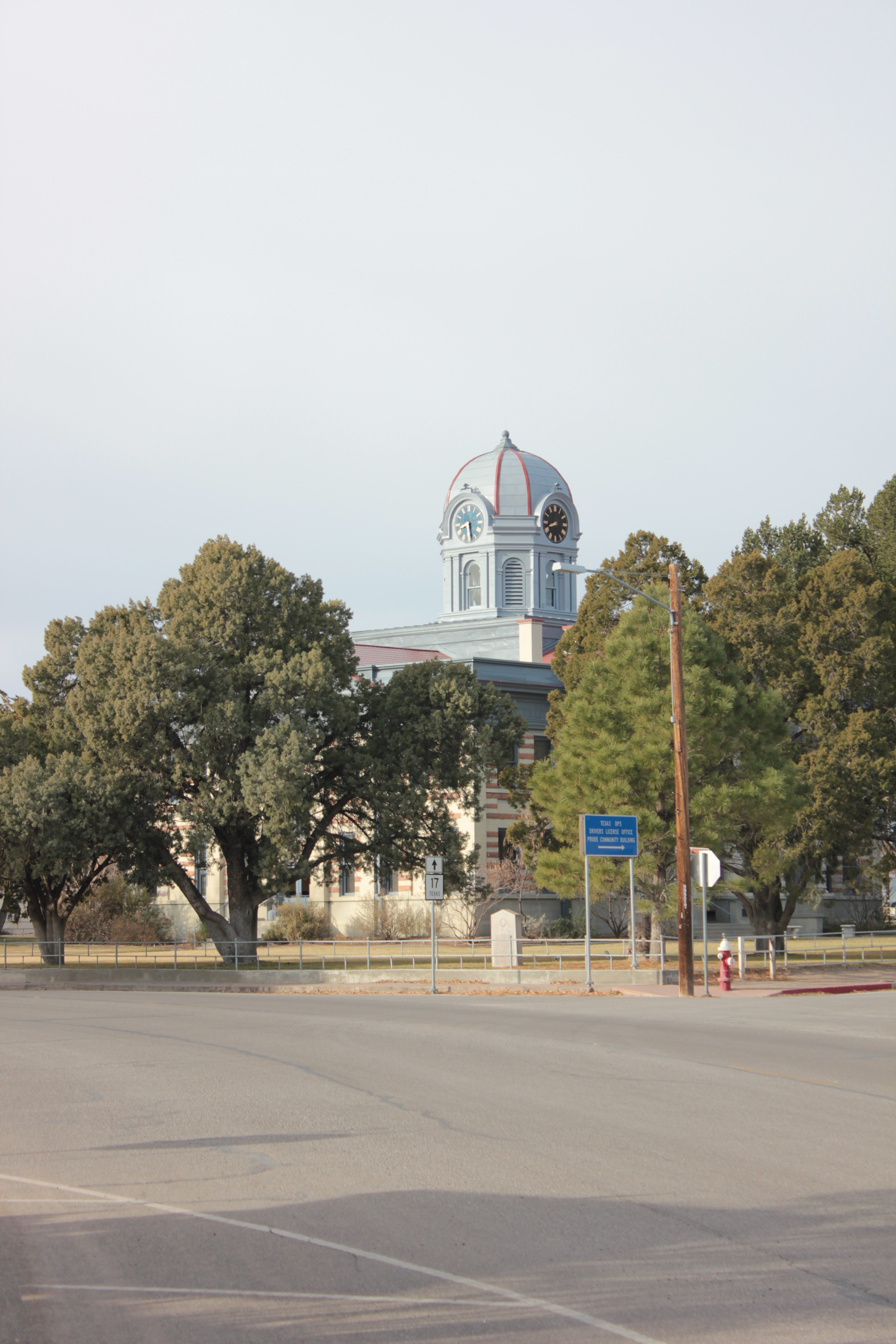 Northeast corner of the Jeff Davis County Courthouse facing the intersection of State St. (SH 17 / SH 118) and Court Ave. in Fort Davis, Texas